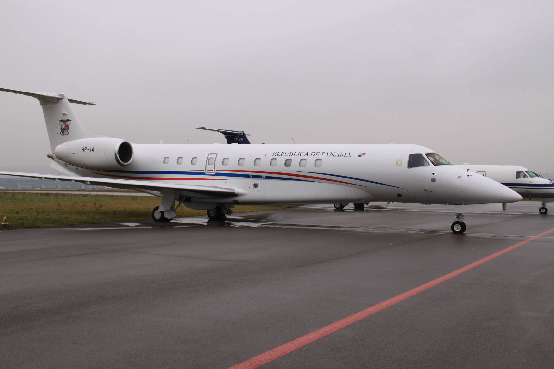 At Zurich Kloten International Airport